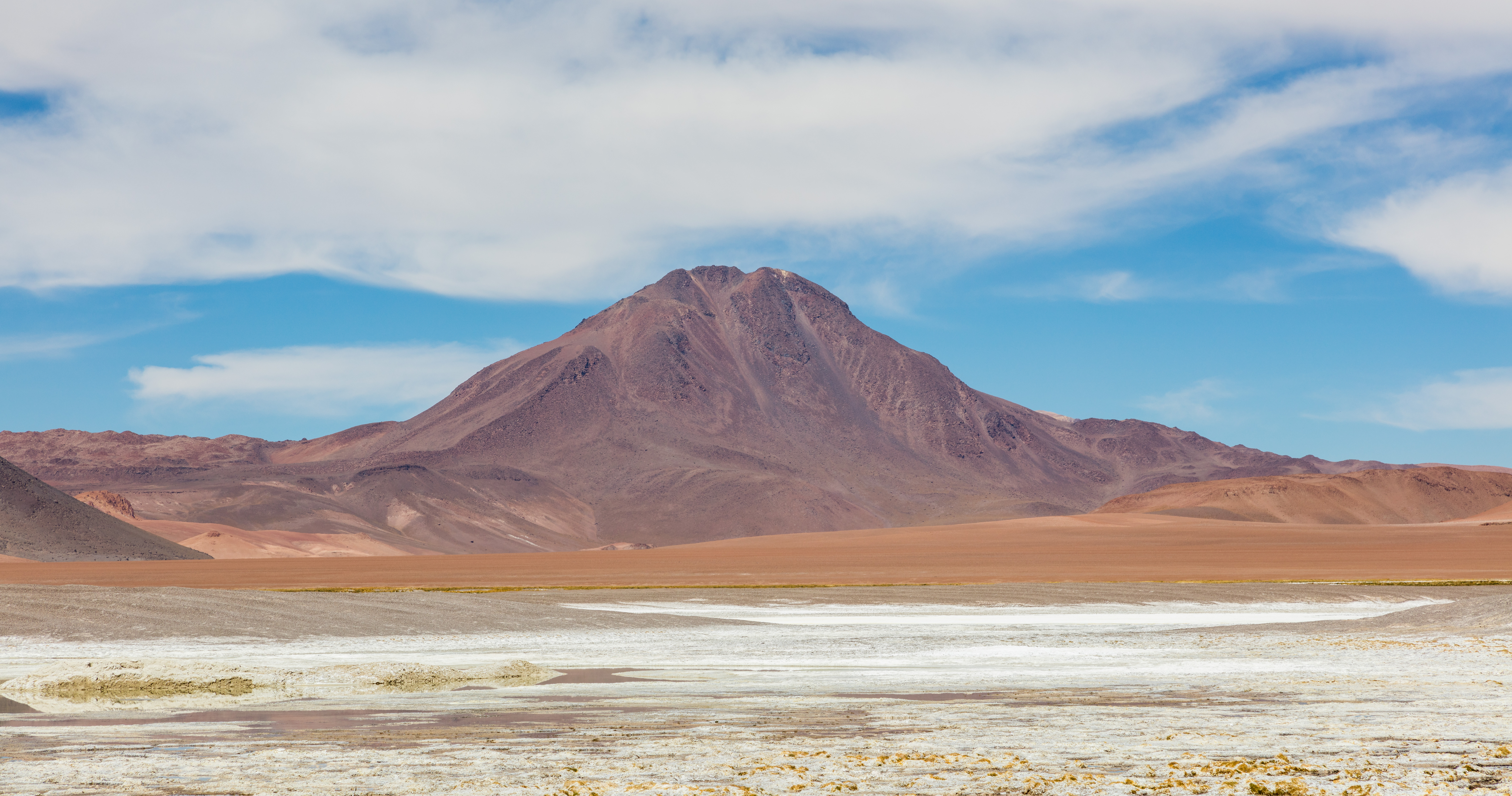 Salar de Pujsa, Chile